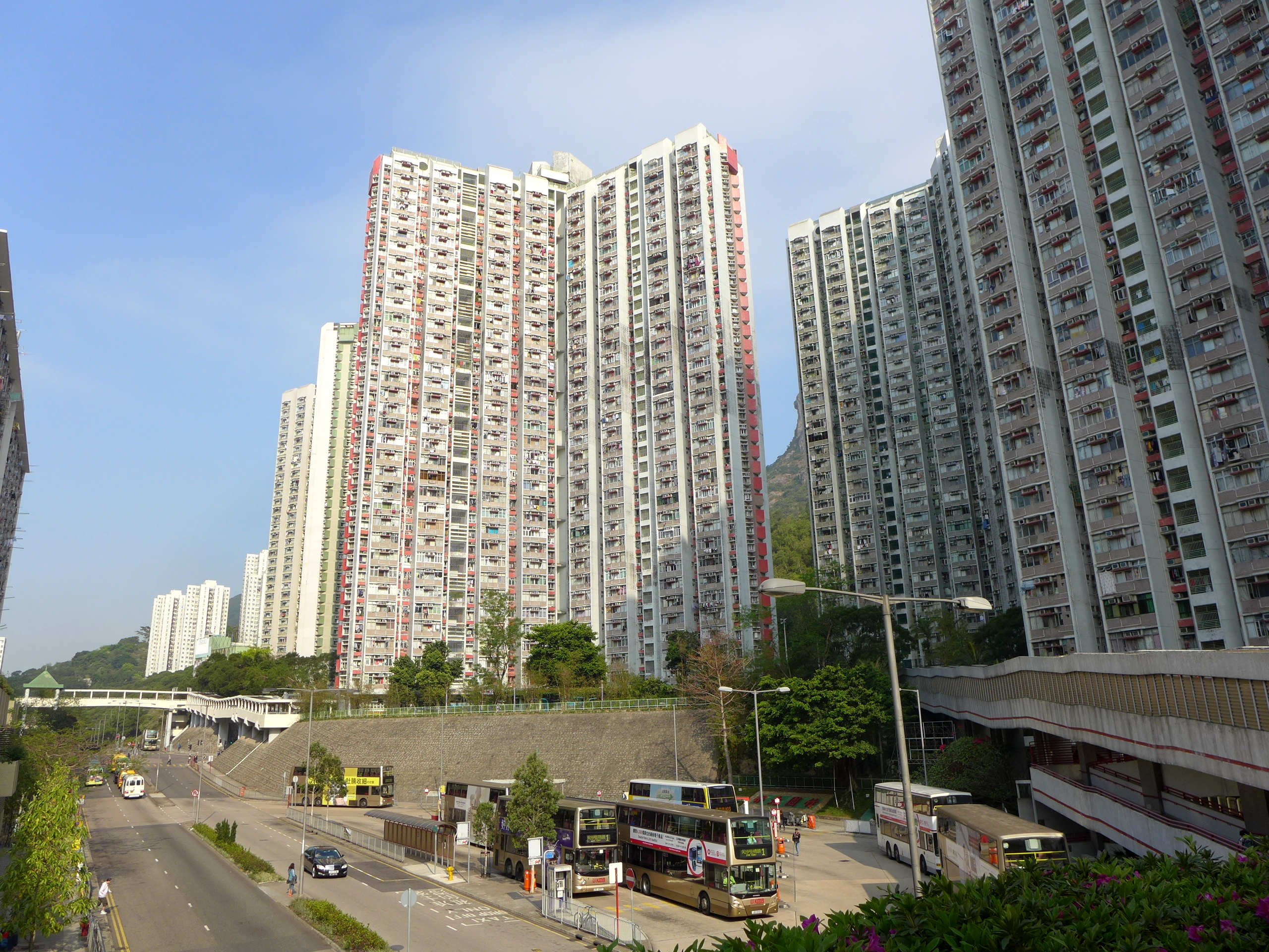 Chuk Yuen North Estate